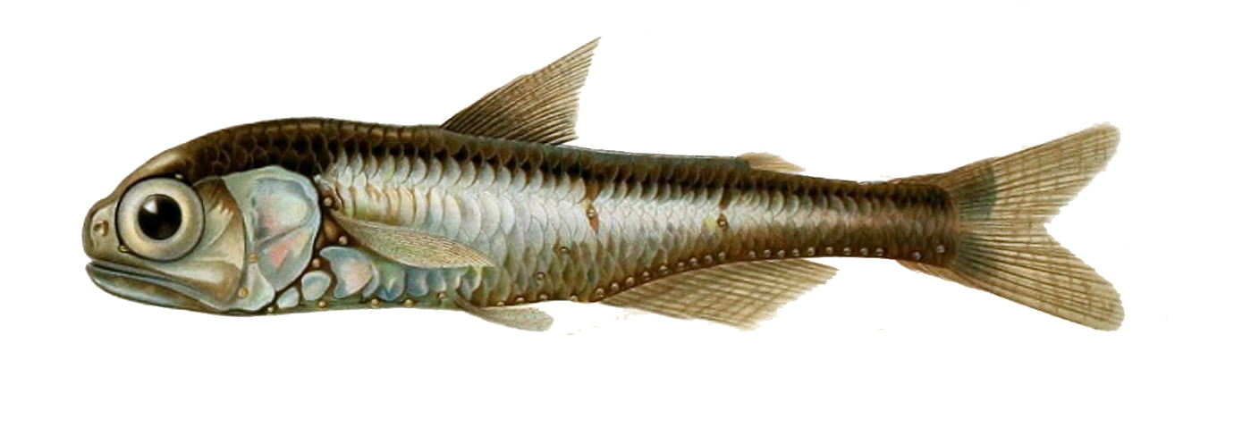 The lantern fish Myctophum punctatum